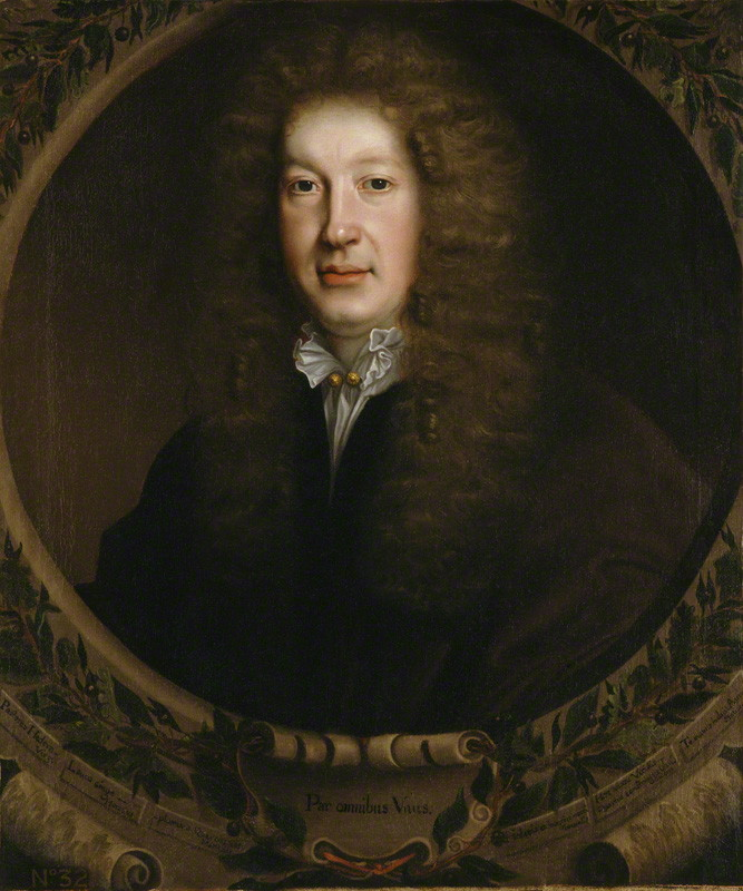 John Dryden by John Michael Wright, 1668 (detail), National Portrait Gallery, London